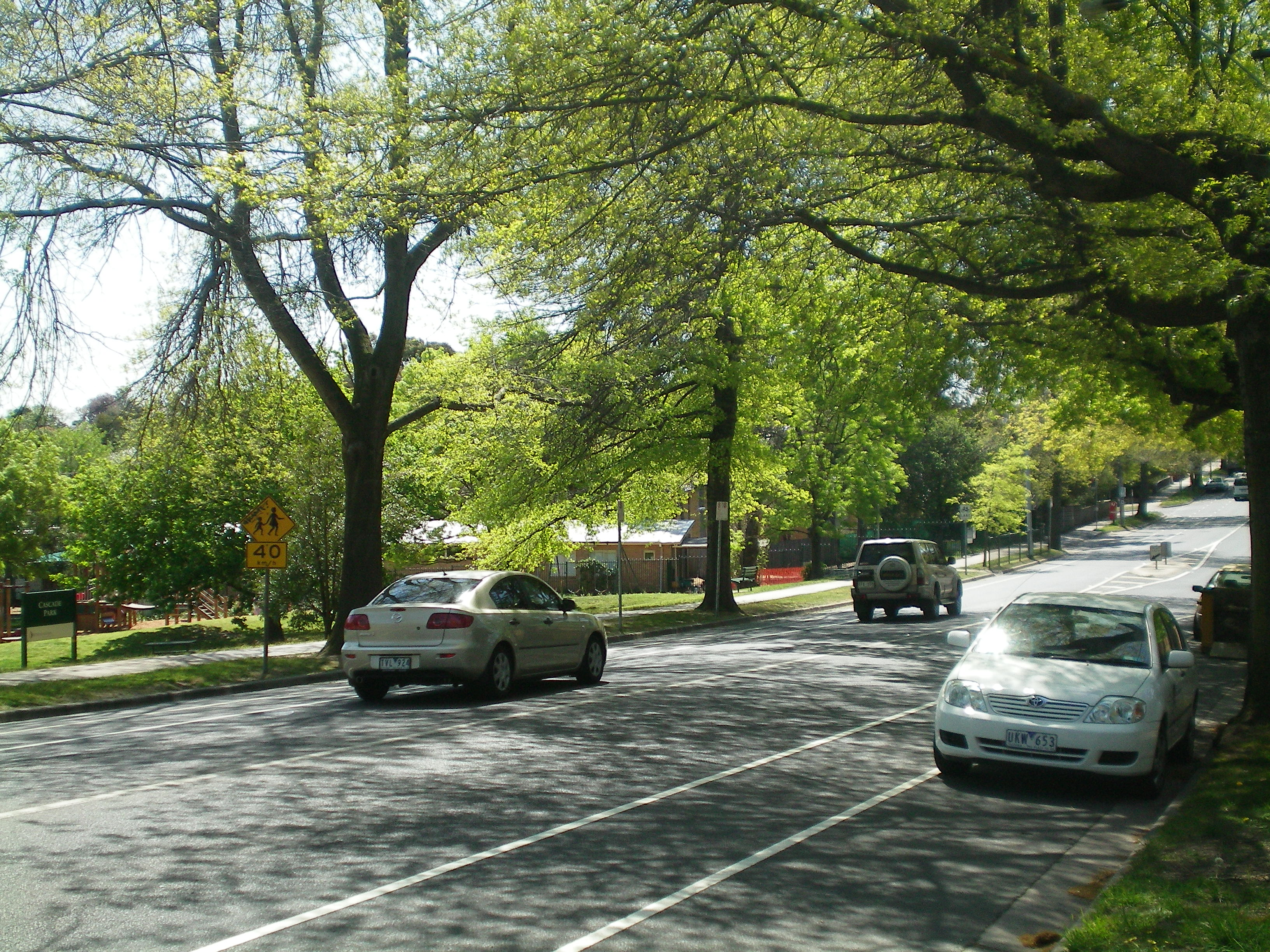 Typical street in North Balwyn.